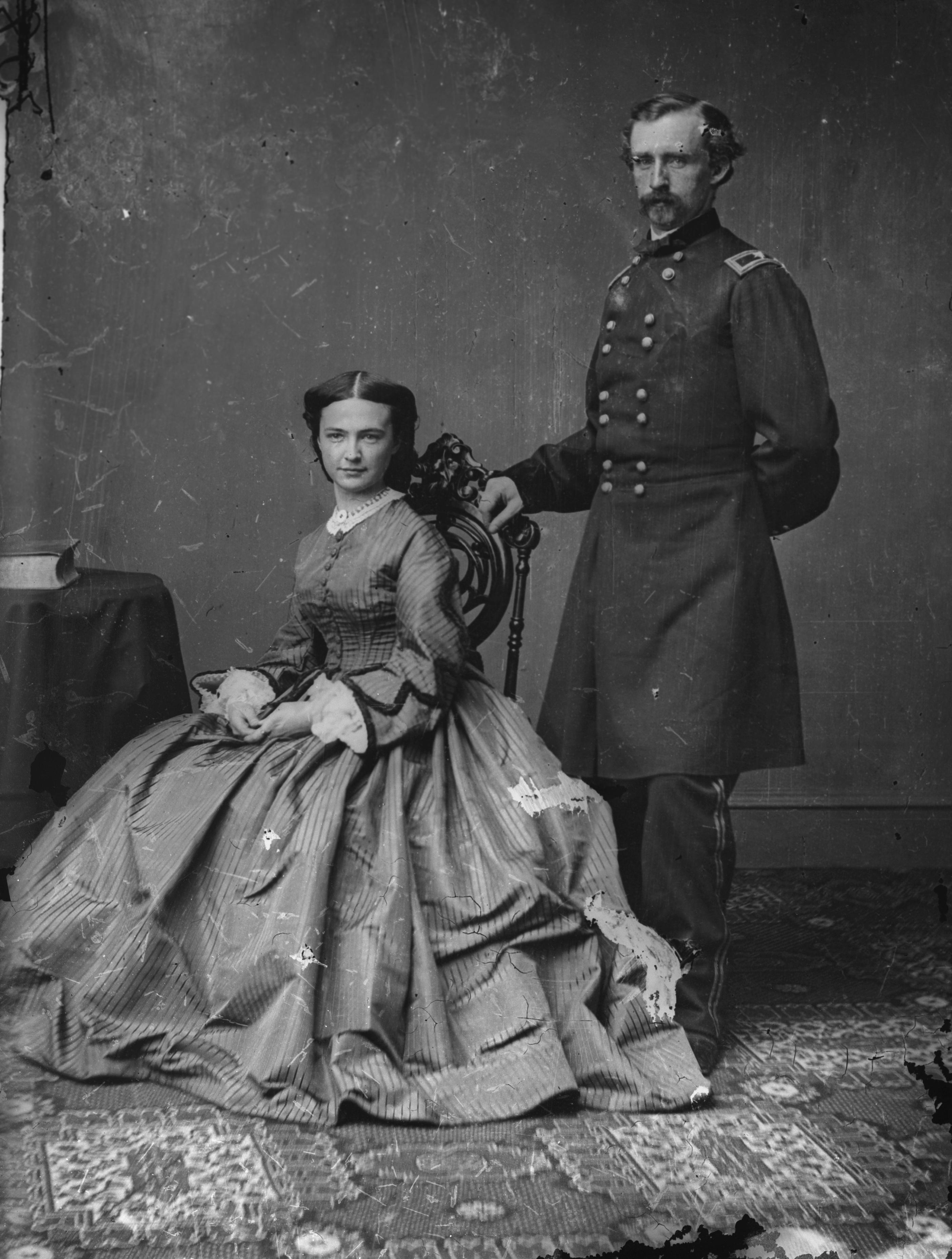 George Armstrong Custer and Elizabeth Bacon Custer. Library of Congress description: "Gen. George Custer & Wife"